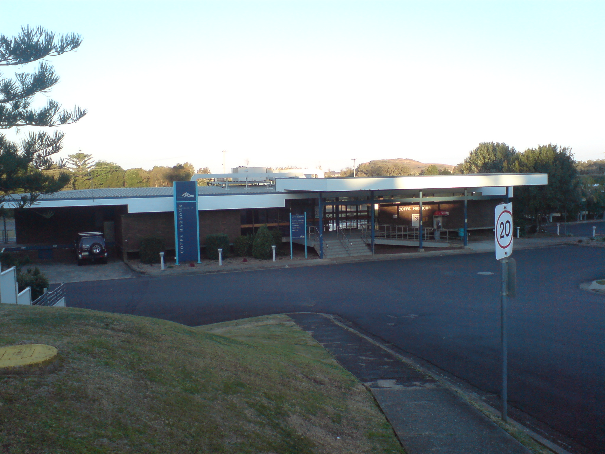 Coffs Harbour Railway Station